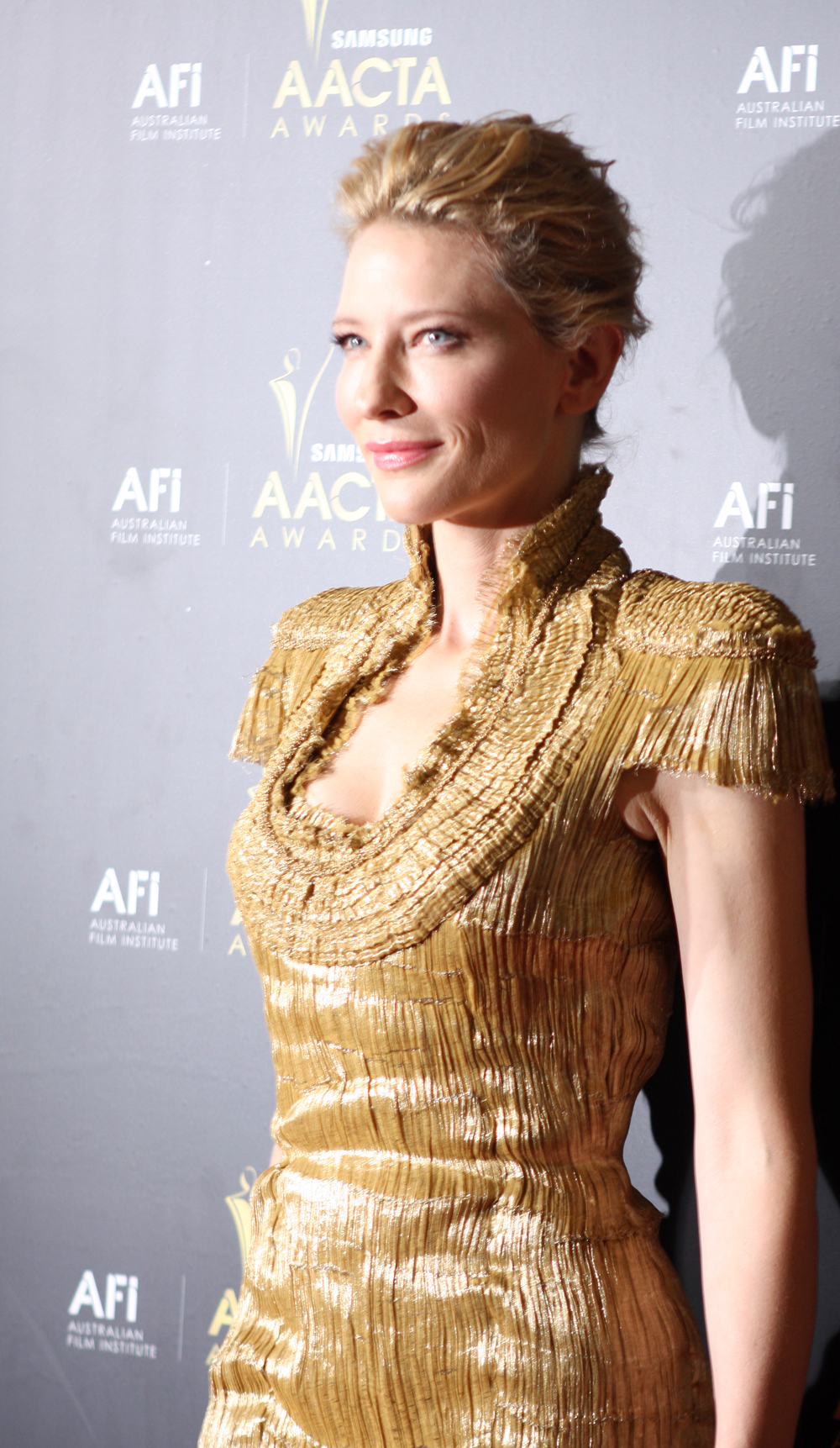 Cate Blanchett at the AACTA Awards Sydney, Australia